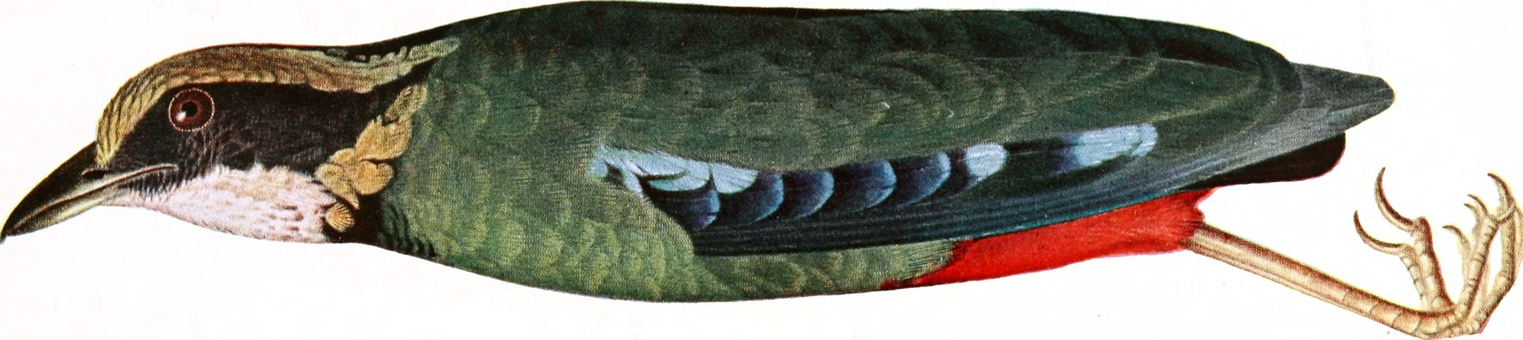 Pitta reichenowi specimen from Beni-Mawambi, in Ituri Province, northeastern DRC, in the Vienna Natural History Museum Title: Annalen des Naturhistorischen Museums in Wien Year: 1916 (1910s) Authors: Naturhistorisches Museum (Austria) Subjects: Naturhistorisches Museum (Austria); Natural history Publisher: Wien, Naturhistorisches Museum [etc. ] Text Appearing Before Image: Dr. Moriz Sassi: Zur Ornis Centralafrikas. Tafel VII. Text Appearing After Image: Phyllastrephus lorenzi Sassi. Cossypha bocagei albimentalis Sassi. Pitta reichenowi Madarasz. Annalen des k. k. naturhistorischen Hofmuseums, Band XXX, 1916. Vierfarbenätzung von Max ]aili, Wien. Druck von Friedrich Jasper in Wien.